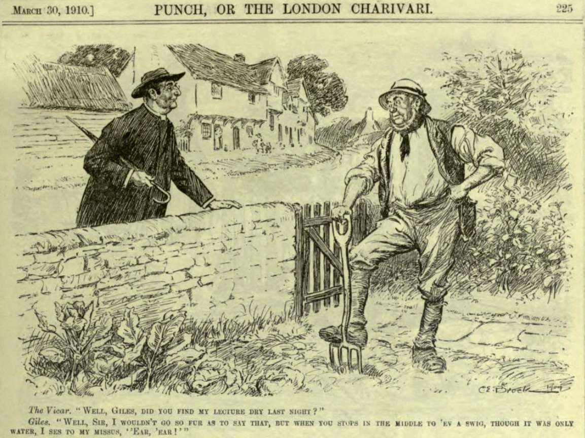 Illustration by Charles Edmund Brock for Punch 30 March 1910. This was the last illlustration that Charles Brock had published in Punch